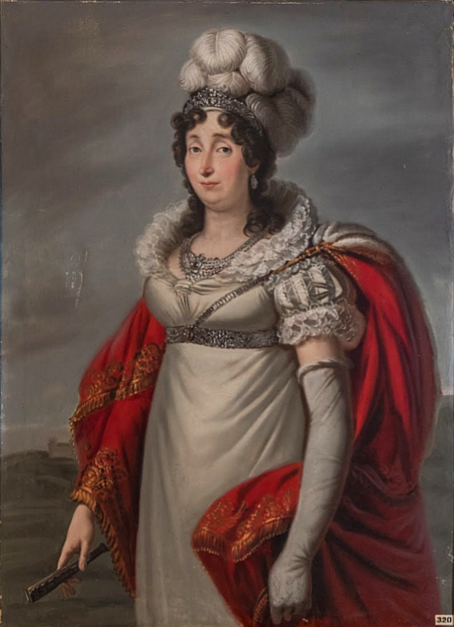 Portrait of Maria Theresa of Austria-Este, Queen of Sardinia (1773-1832)